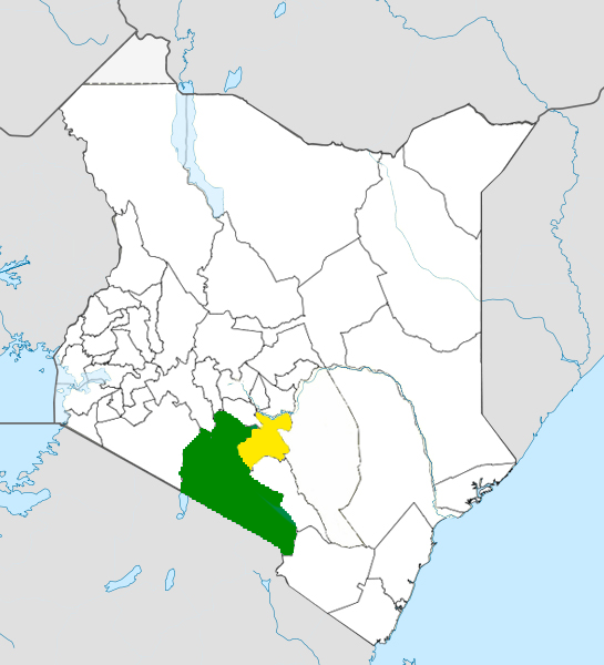 Machakos County in Nairobi Metro Kiswahili: Kaunti ya Machakos kwenye Nairobi Metro